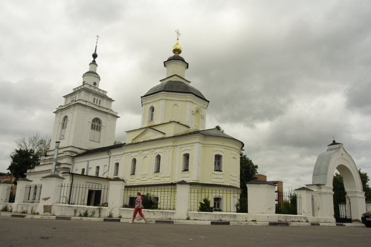 Intercession Cathedral 1781